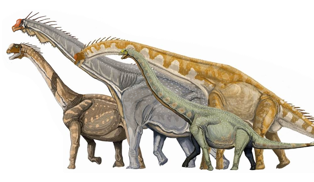 Camarasaurus, Brachiosaurus, Giraffatitan, Euhelopus. Cropped and enhanced version of the image located here: [1]. Also removed Cyrillic Russian-language labels. Killdevil (talk) 14:57, 12 December 2008 (UTC)